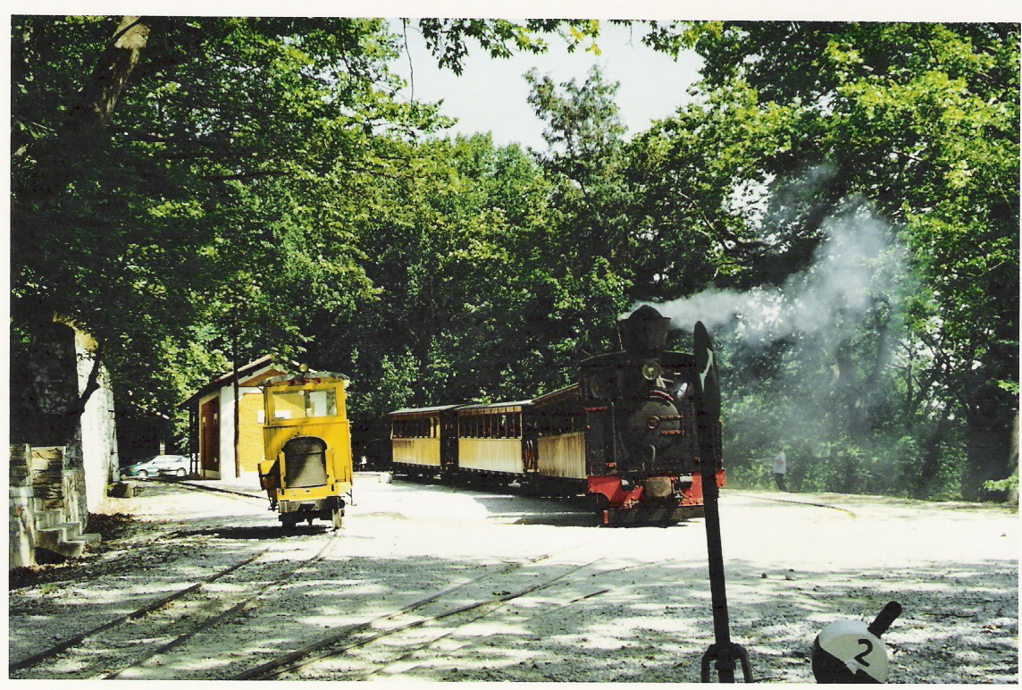 en: 2-6-0 Tubize steam engine from 1903 leaving Milies Station at the summit of the Pelion Narrow Gauge Railway from Volos to Milies de: 1C-Schmalspurlokomotive (Tubize 1903) mit Zug im Bahnhof Milies, Endstation der Pilionbahn